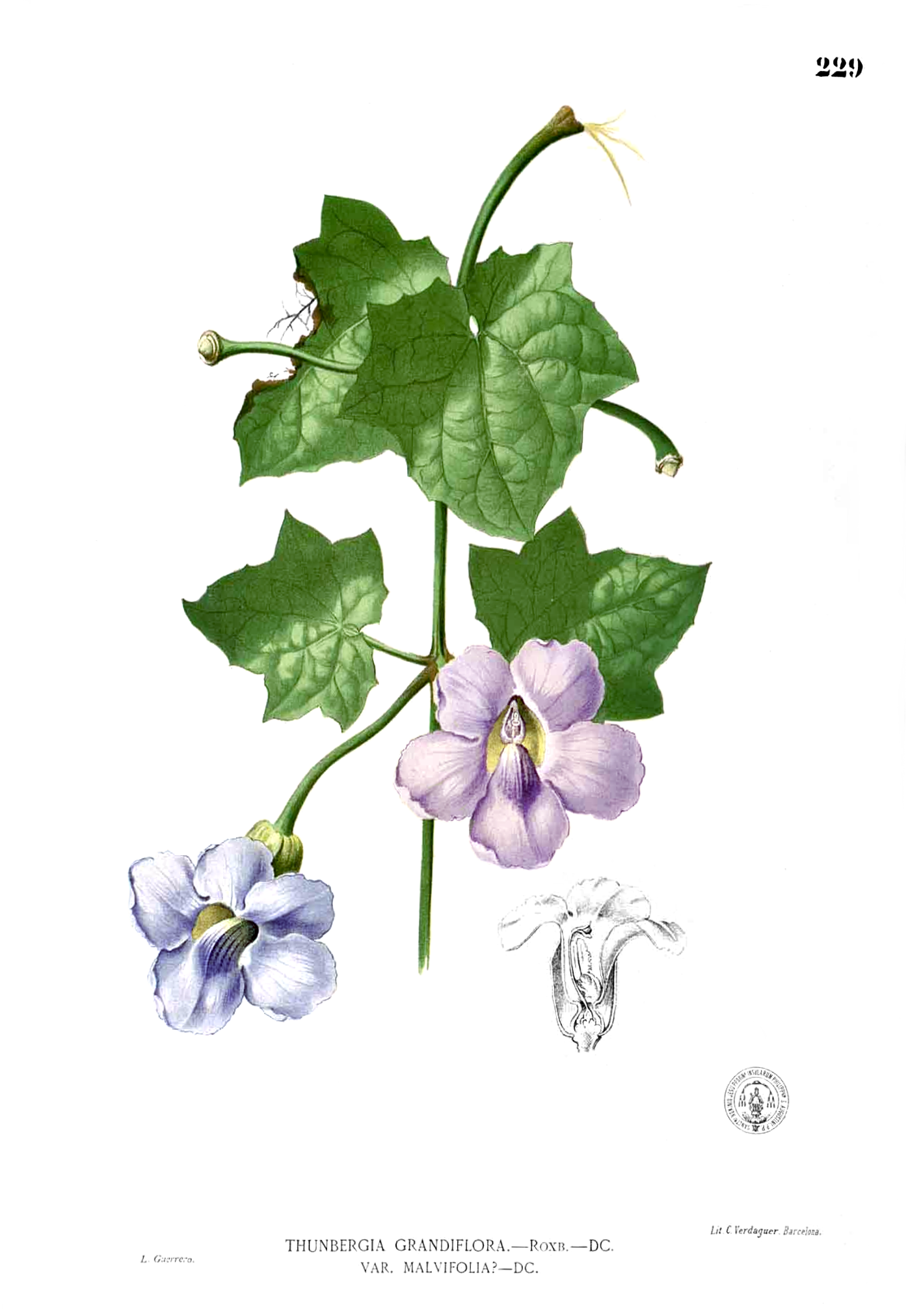 Plate from book